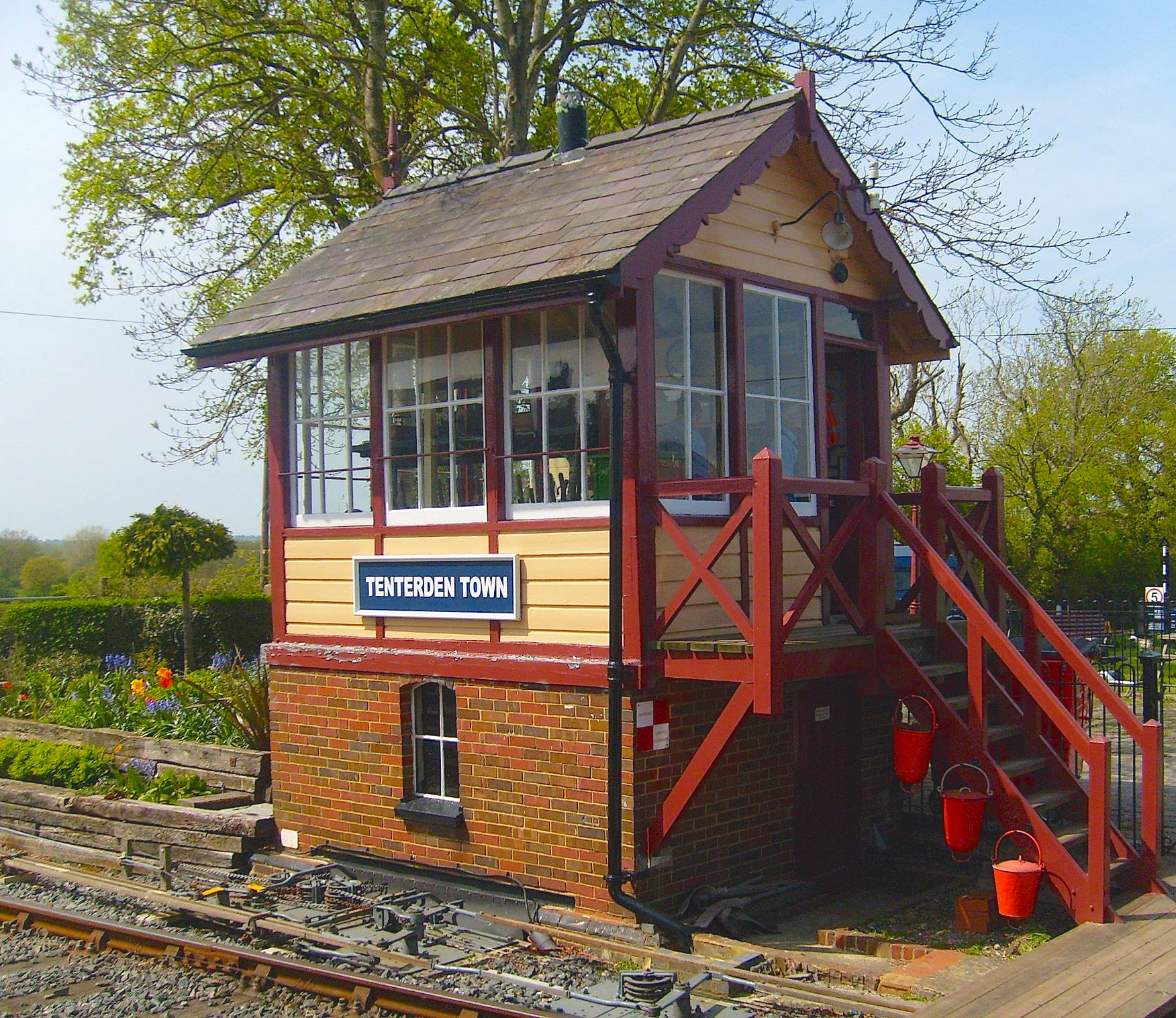 Tenterden Town Signal Box on the Kent and East Sussex Railway